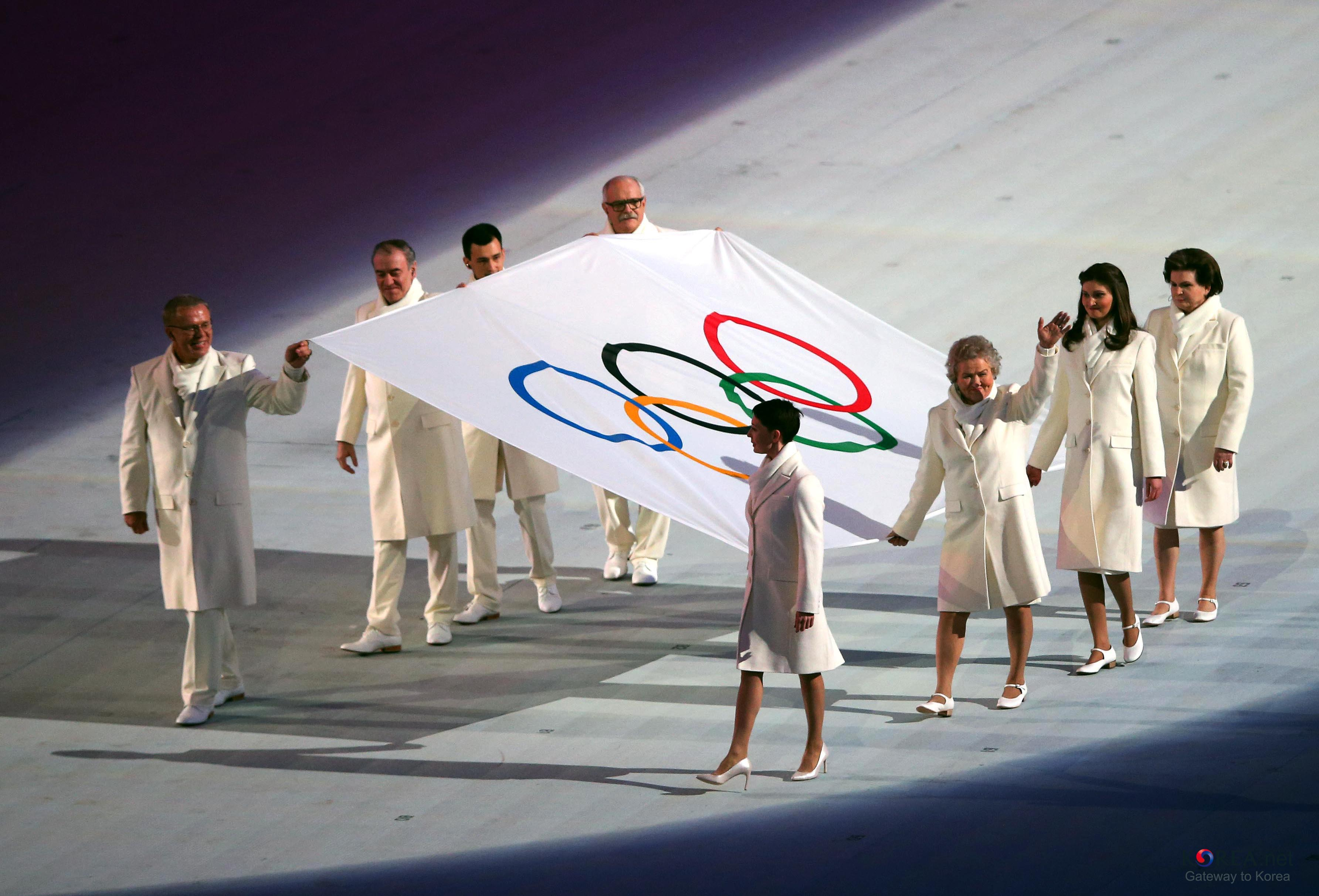 The Sochi 2014 Winter Olympic Games The Opening Ceremony February 7, 2014 Sochi, Russia Photo: The Korean Olympic Committee Related Articles -English- Winter Olympics open in Sochi -Russian- Зимние Олимпийские игры открылись в Сочи 2014 소치 동계올림픽 개막식 2014-02-07 러시아, 소치 사진: 대한체육회